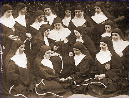 Blessed Carmen González Ramos with some nuns of her congregation, ca. 1890